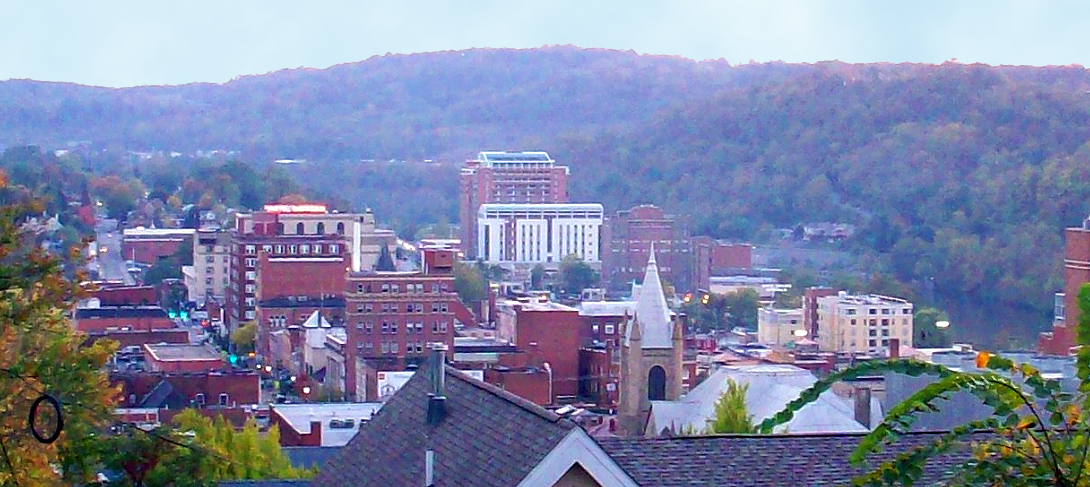 Downtown Morgantown from North High Street. Created by myself. September, 2010.